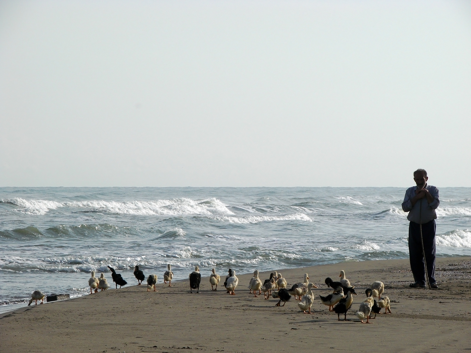 Wave power is the capture of energy of wind waves to do useful work – for example, electricity generation, water desalination, or pumping water. A machine that exploits wave power is a wave energy converter (WEC).